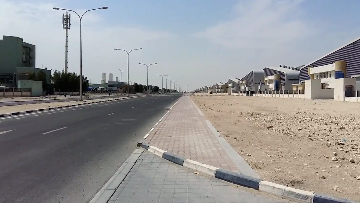 Street 1 in the Industrial Area of Doha, with offices for the Qatar Development Bank on the right, and Al Fadaa Sponge and Plastic Factory and Bumatar German Factory on the left.